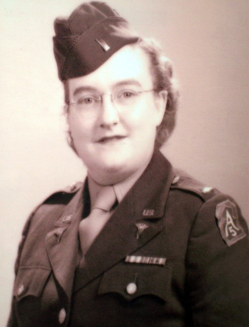 Elaine A. Roe, Silver Star recipient from WWII